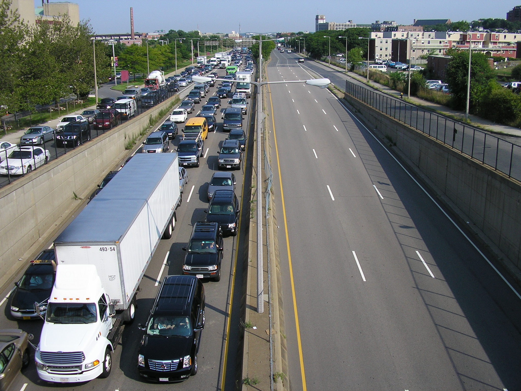 Massachusetts Route 99, aka Rutherford Avenue, as seen from the Bunker Hill Community College skywalk parallel to and just north of Austin Street in Charlestown MA at approximately 9:30 AM on a weekday. Southbound traffic lanes headed towards the city of Boston, MA are backed-up.